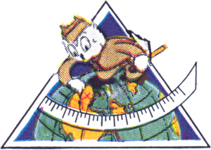 6th Photographic Squadron emblem. Approved 10 September 1943.